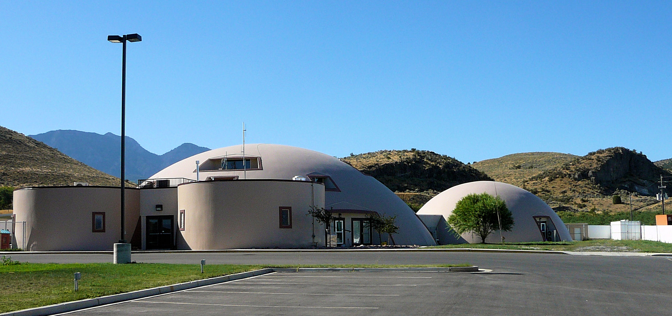 Centro de la Familia de Utah Migrant Head Start Center in Genola, northeast Goshen Valley, Utah.